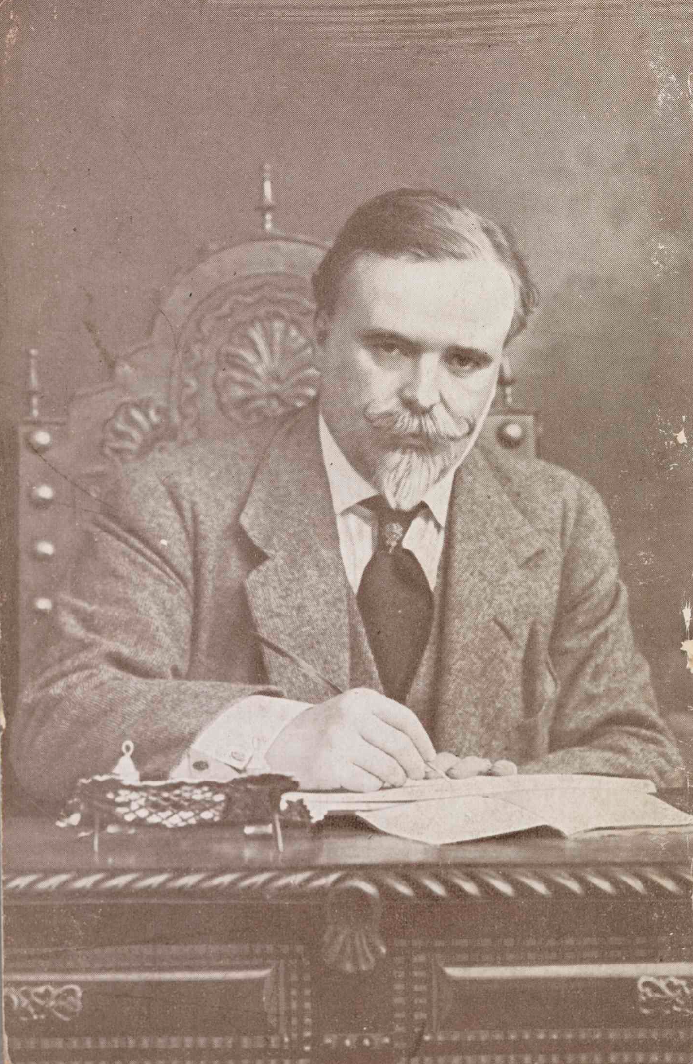 António José de Almeida, President of the Portuguese Republic, in 1919.